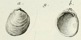 Limopsis aurita (Brocchi, 1814), Limopsidae, Bivalvia, Mollusca